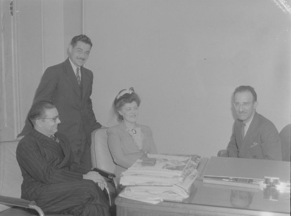 The journalist Gérald Danis interviewed three people in a local newspaper "Le Samedi".